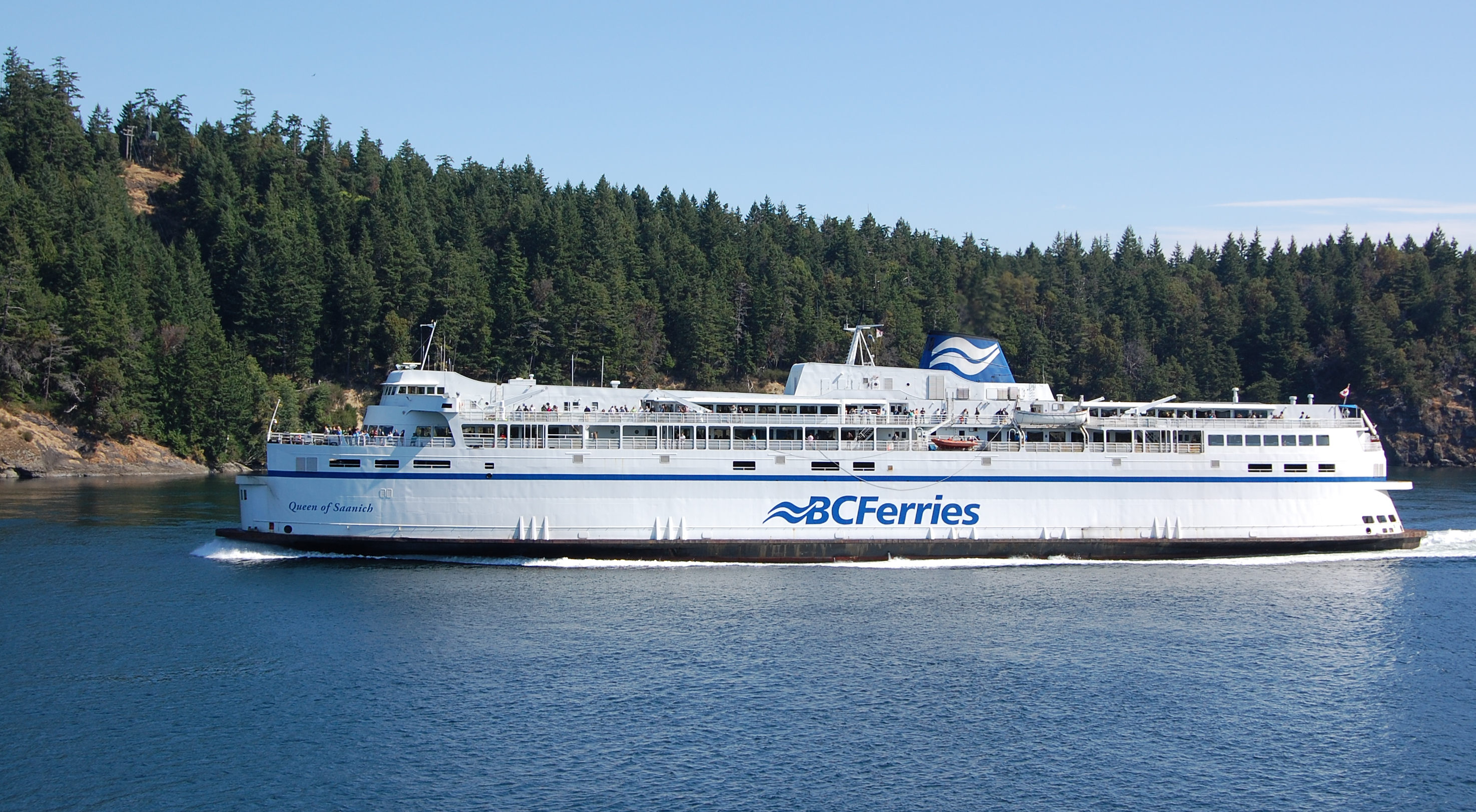 BC Ferries' Queen of Saanich navigating Active Pass enroute to Swartz Bay, British Columbia.